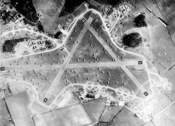 Aerial photograph of Welford Airfield, England.